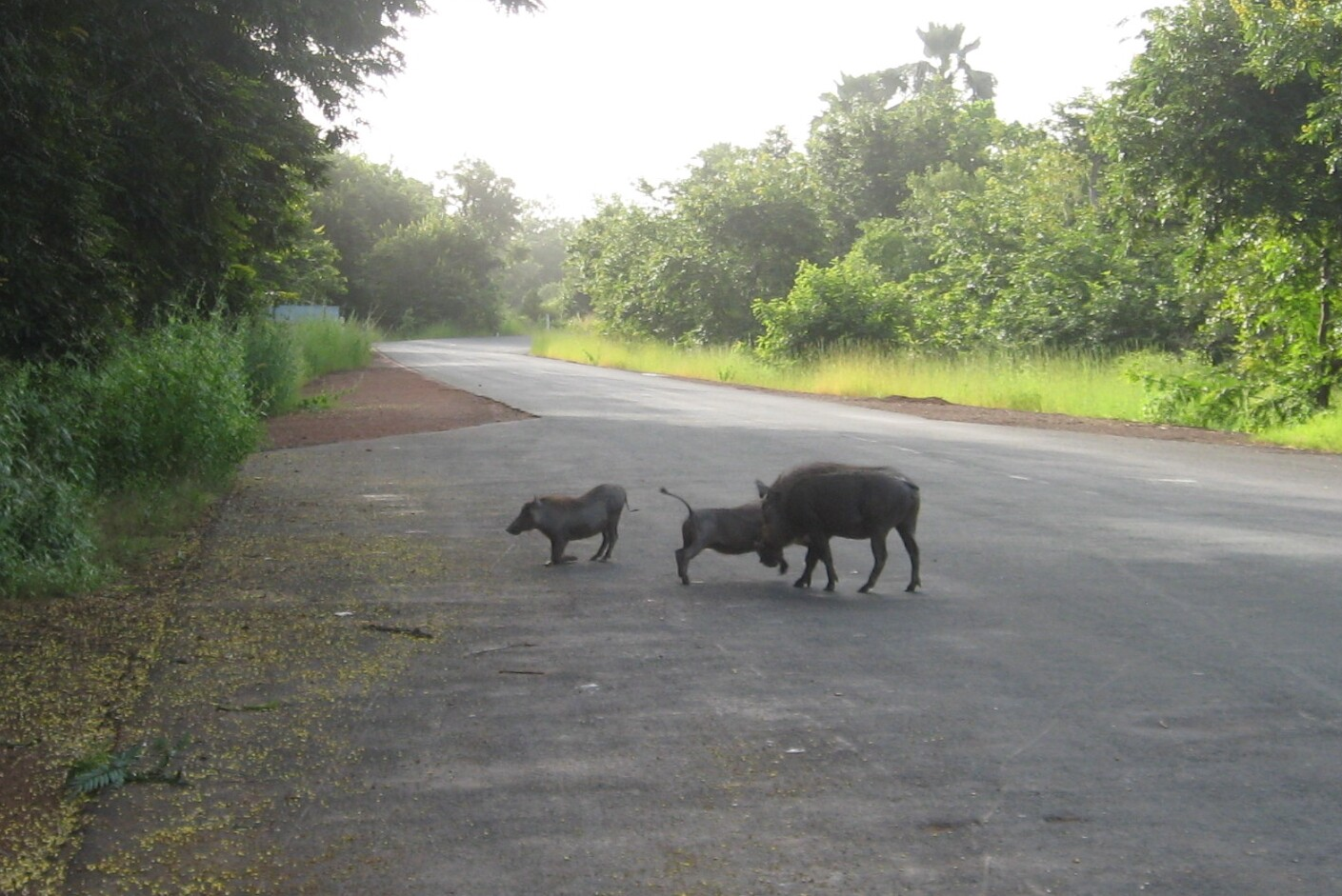 Warthogs on the road near Kedougou, Senegal)